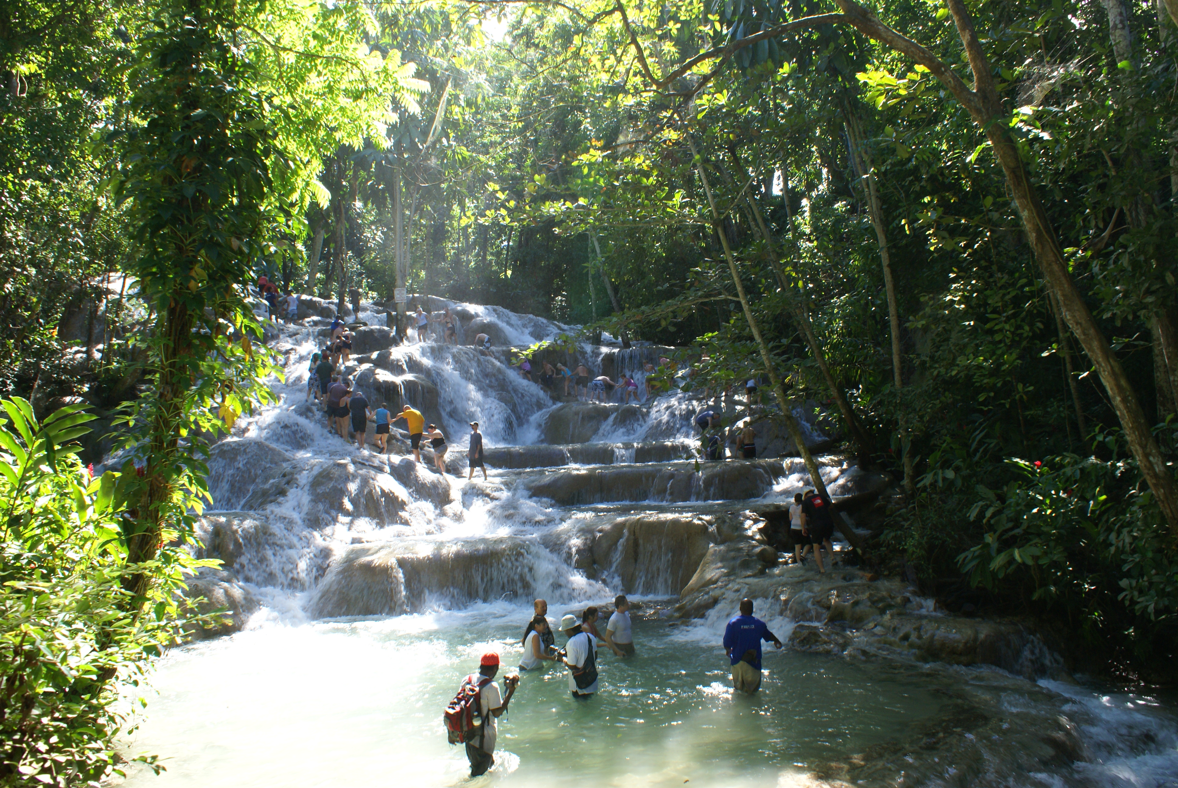 Tourists climb the falls, holding hands and following the direction of guides for safety.